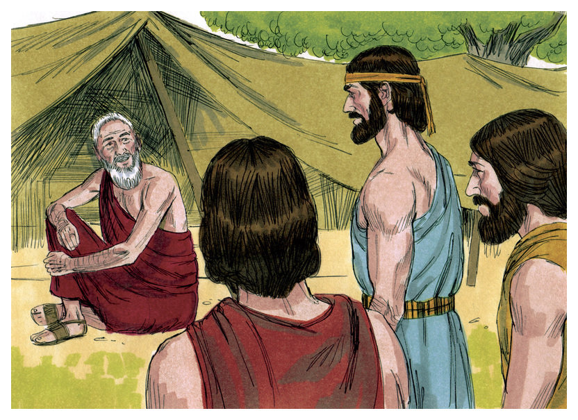 Biblical illustration of Book of Genesis Chapter 18